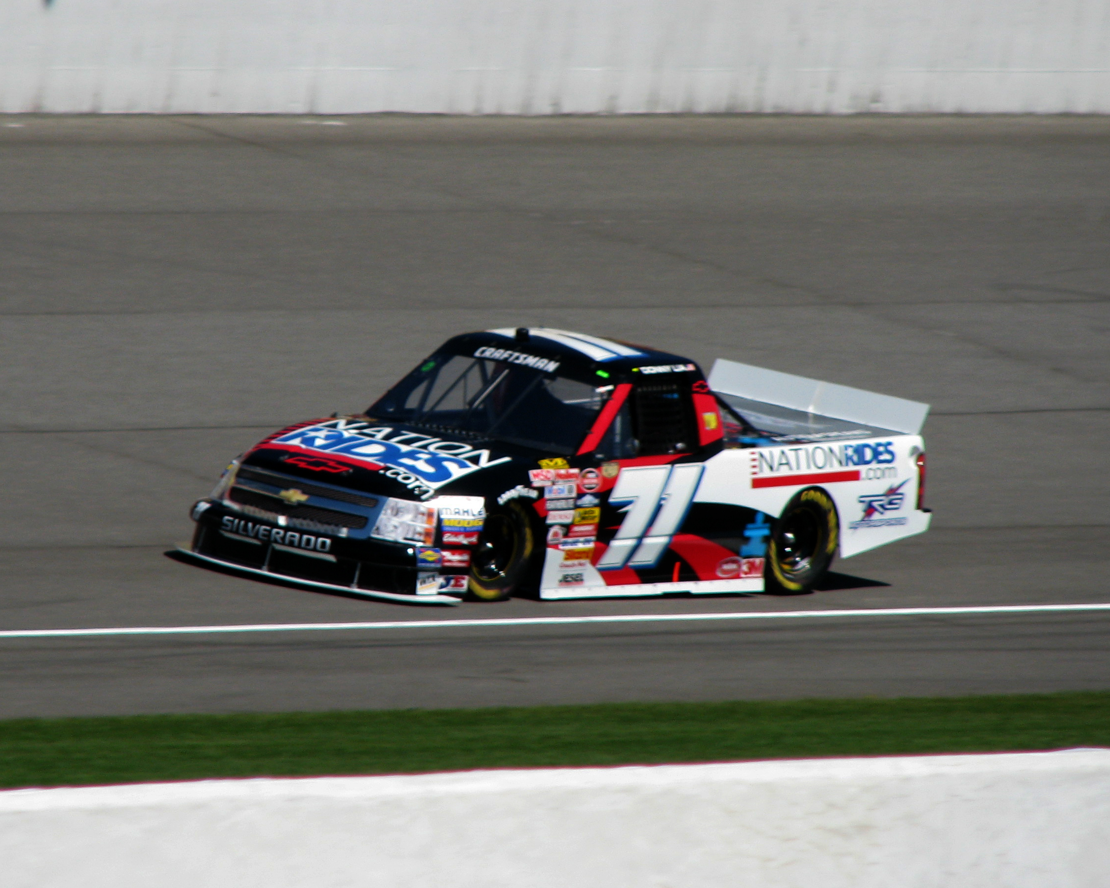 Donny Lia in NASCAR Truck Series qualifying - June 14, 2008